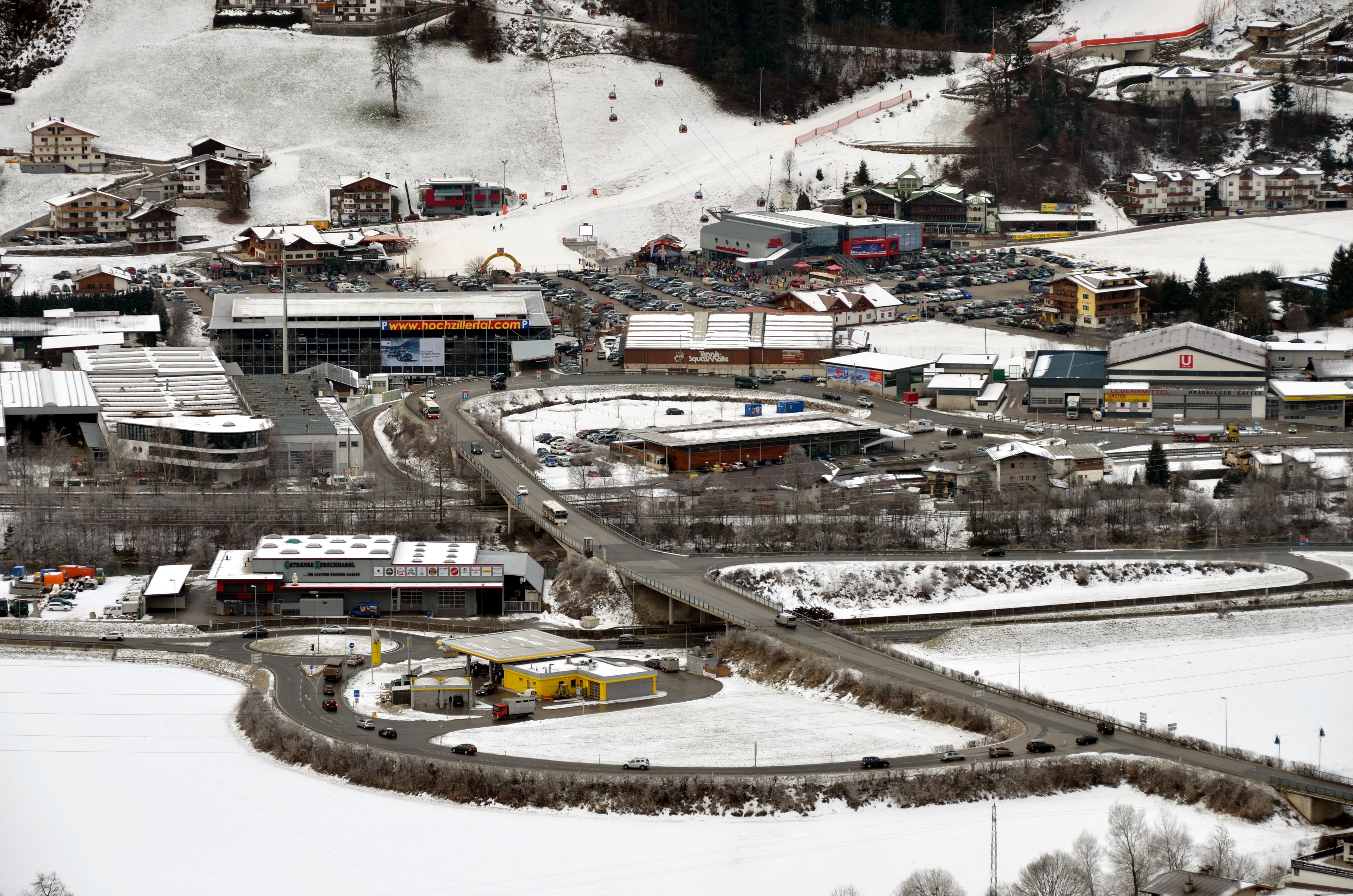 Ski resort Kaltenbach, Zillertal, Tyrol. Start of the cable car up to the skiing area with the Zillertal Straße (the main road), road access, parking lots and a multi-storey car park.